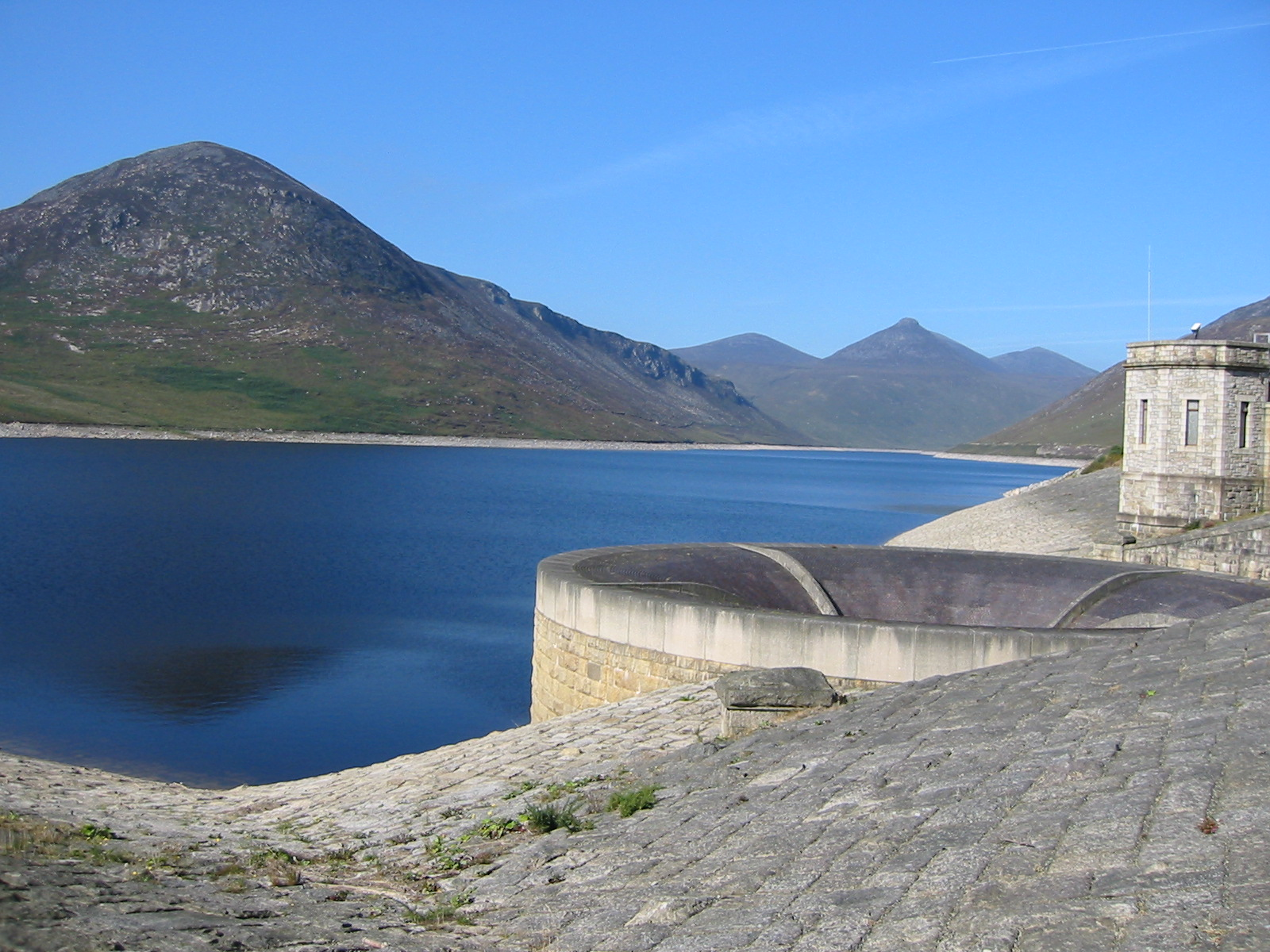 Silent Valley Reservoir; a bell-mouth spillway on the right